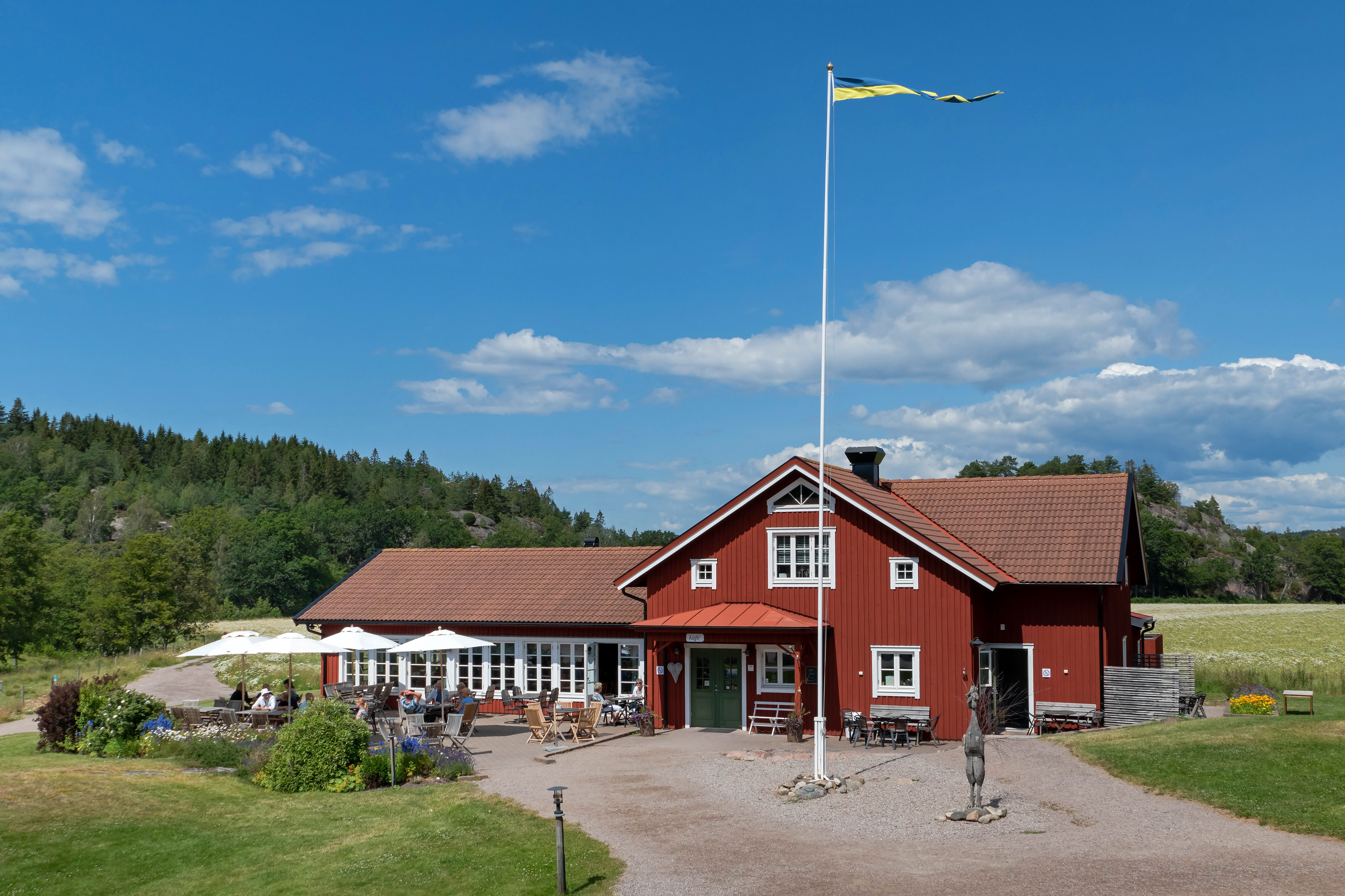 The café on Röe gård in Röe, Lysekil Municipality, Sweden.